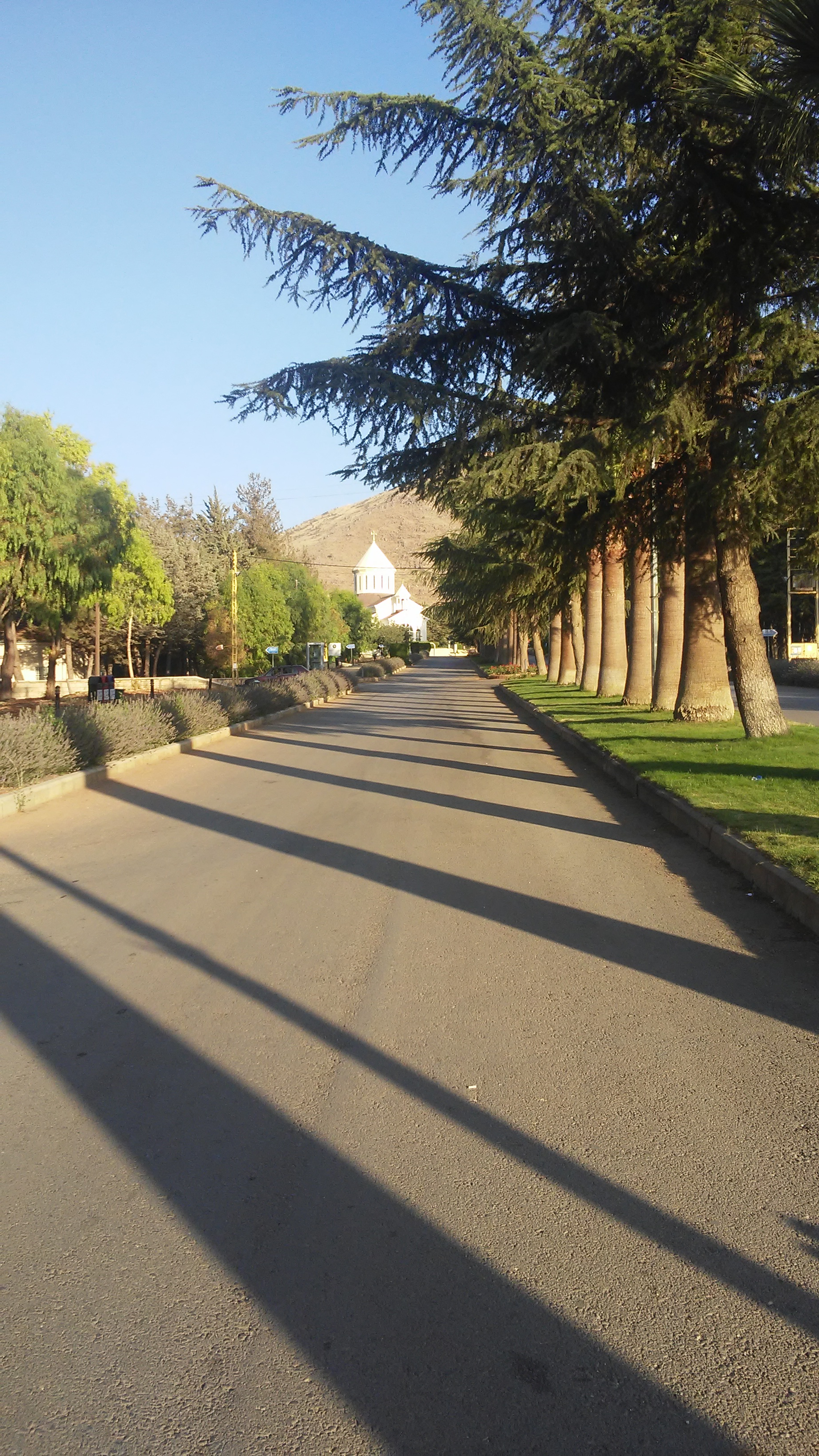 Anjar's main street, looking towards the local Armenian Evangelical Church and the Lebanon-Syria border.